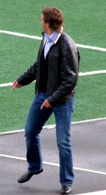 Sergei Yuran as head coach of FC Shinnik